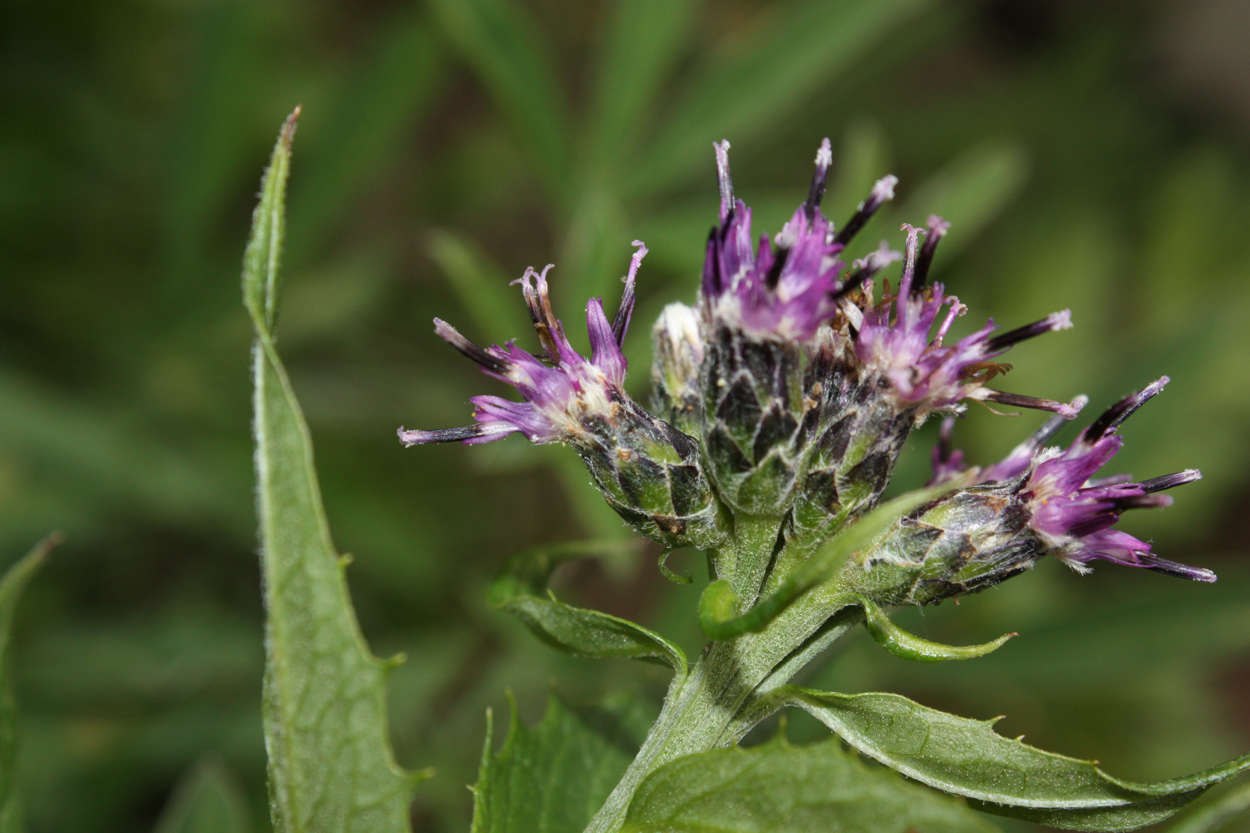 American Saw-wort